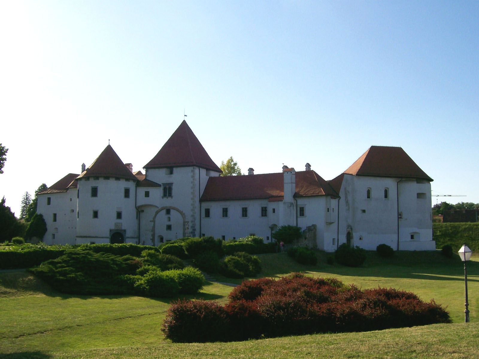 Varaždin - The Old Town